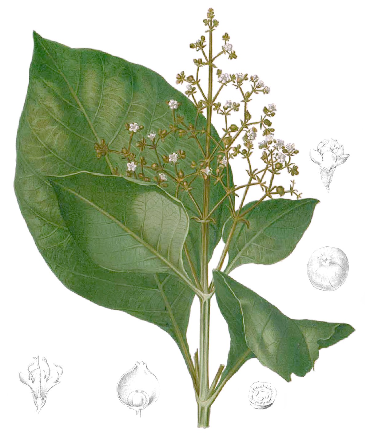 Plate from book